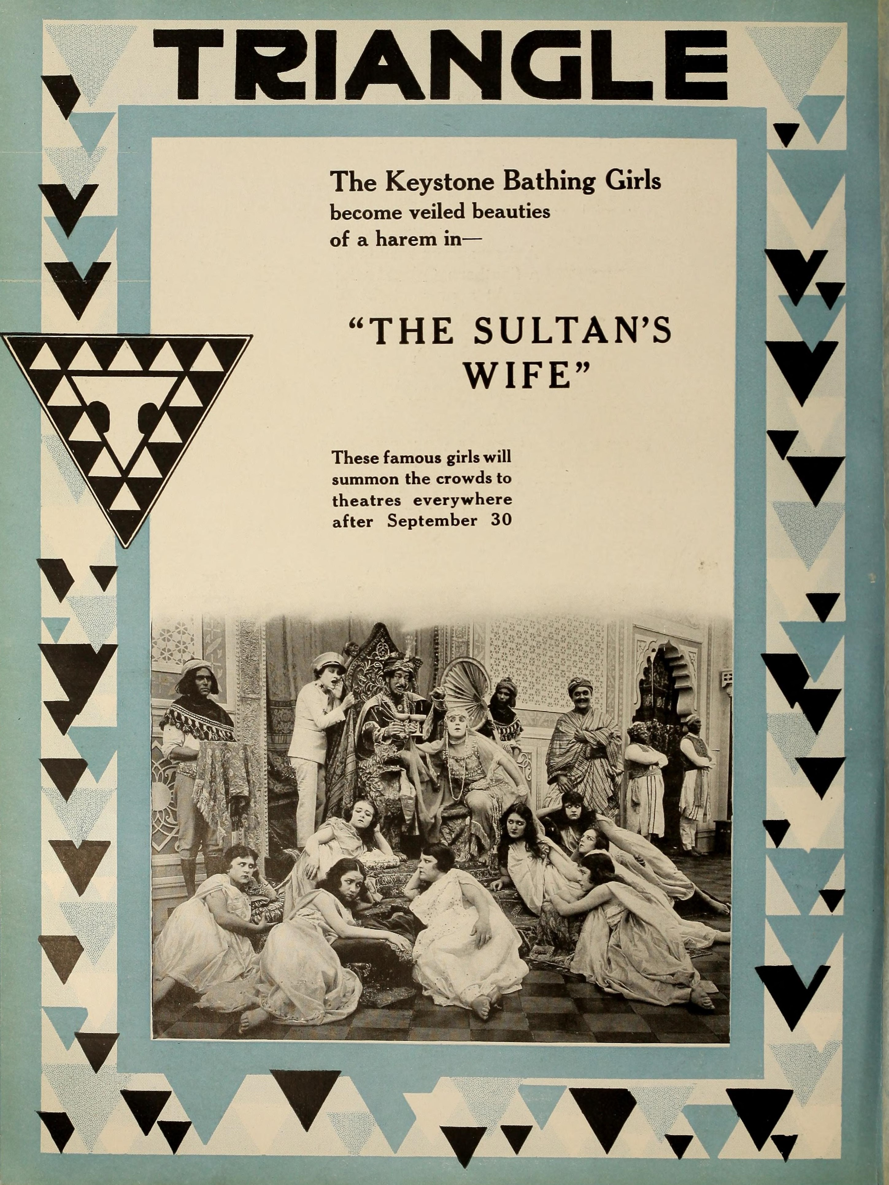 Motion Picture News